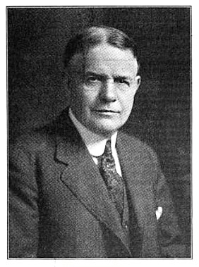 Portrait of Thomas Ewing III (1862–1942), the Commissioner of the U.S. Patent Office